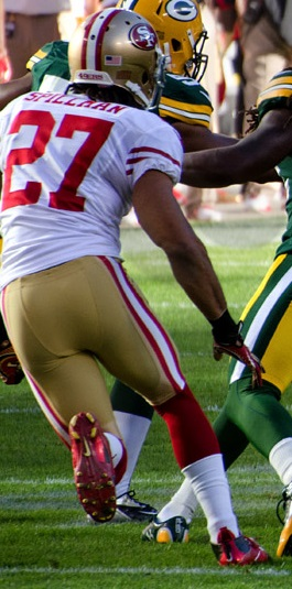 San Francisco 49ers vs. Green Bay Packers at Lambeau Field on September 9, 2012. Photo by Mike Morbeck.